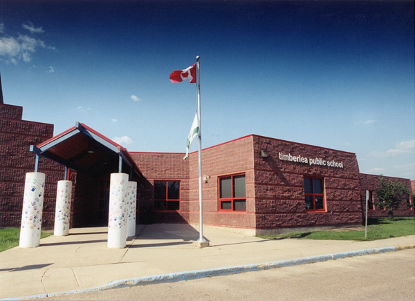 Timberlea Public School in Fort McMurray, Alberta.